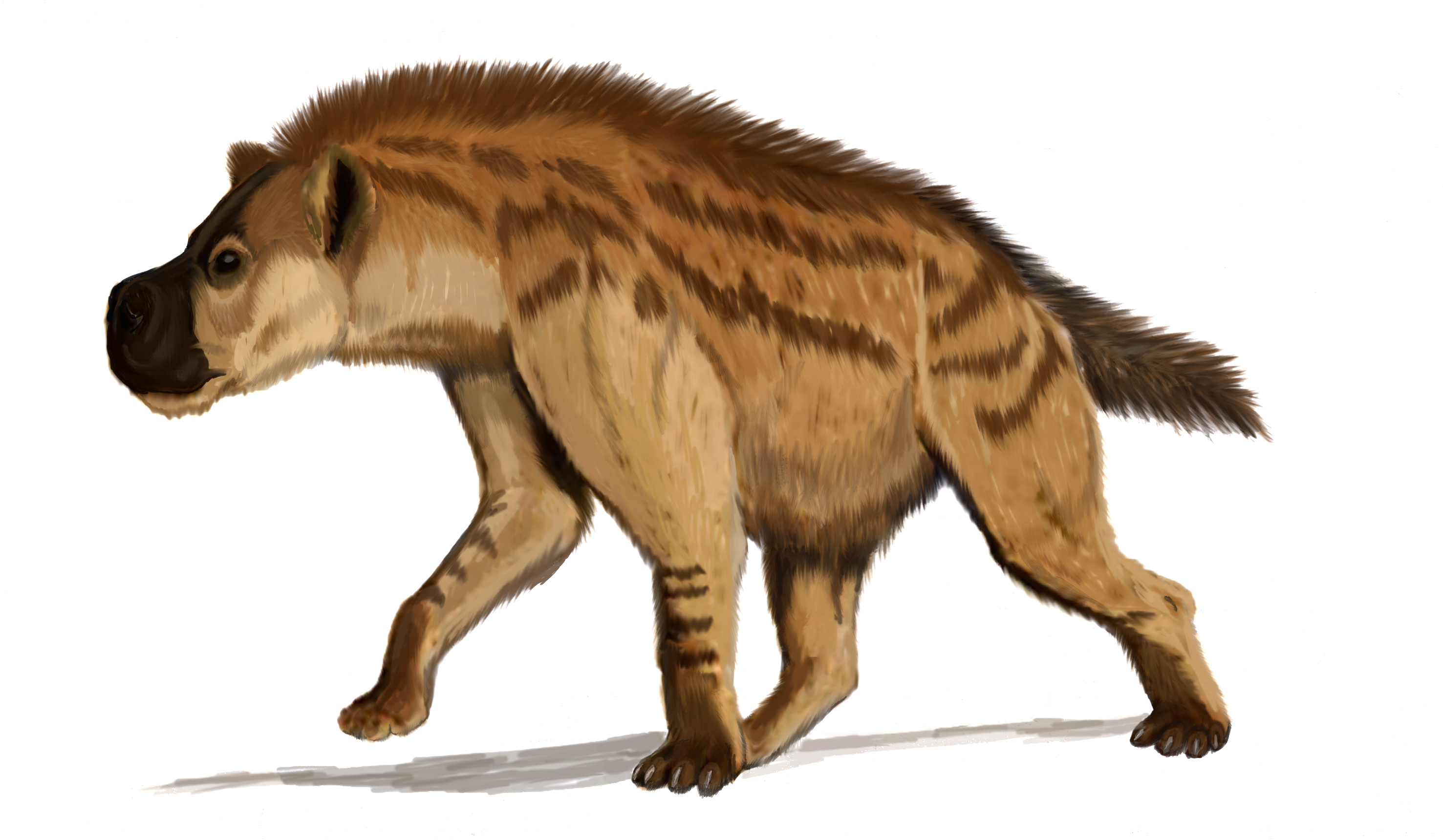 Dinocrocuta gigantea - giant percrocutid from Miocene of China.